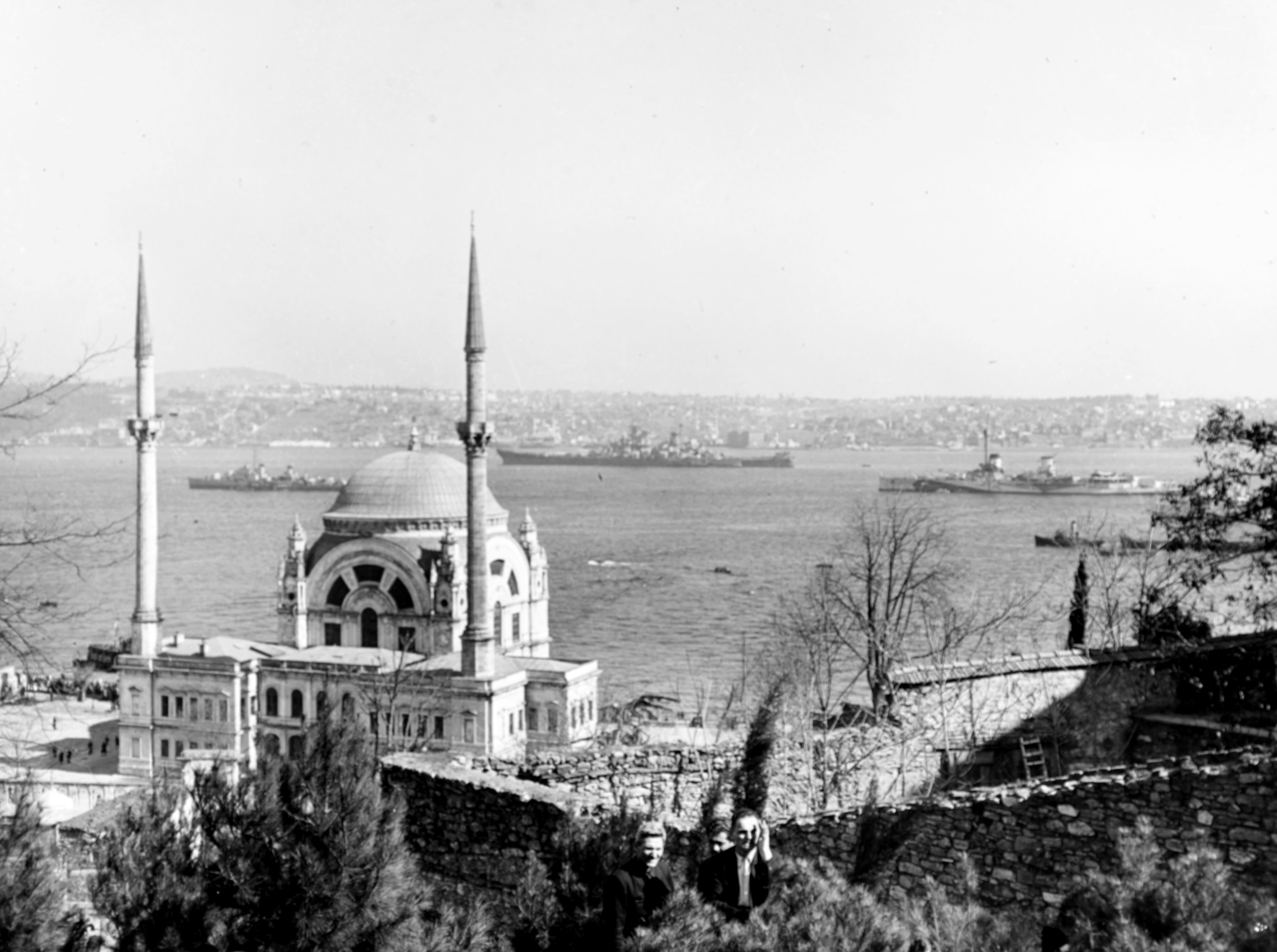 The U.S. Navy battleship USS Missouri (BB-63) (center) off Istanbul, Turkey, 5-9 April 1946. The destroyer USS Power (DD-839) is at left, and the Turkish battlecruiser Yavuz (formerly the German Goeben) is at right. Dolmabahce Mosque is in the foreground.